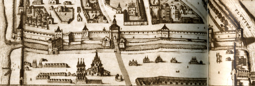 Fragment of the map of Moscow in Bleau Atlas (1613): Red Square